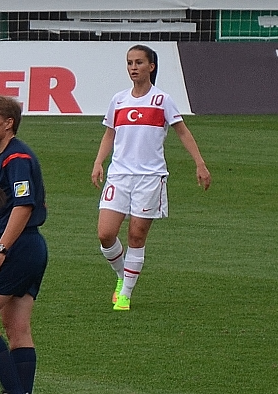 Fatma Kara for Turkey women's national football team in the home match against Belarus